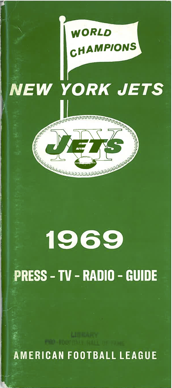 Cover of the New York Jets 1969 media guide.